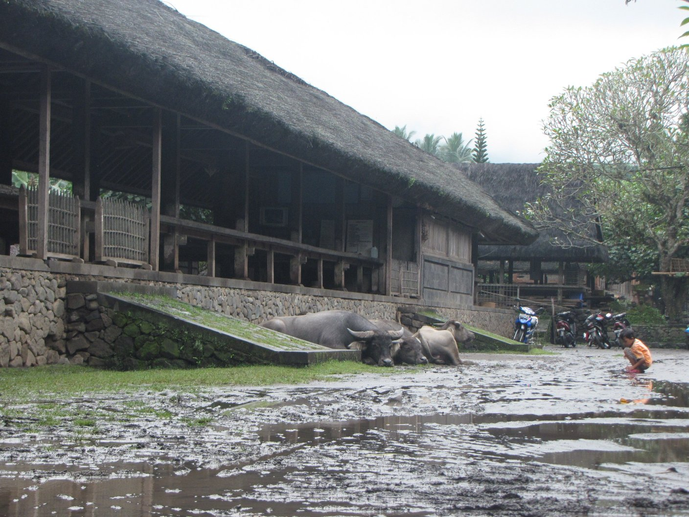 Tenganan